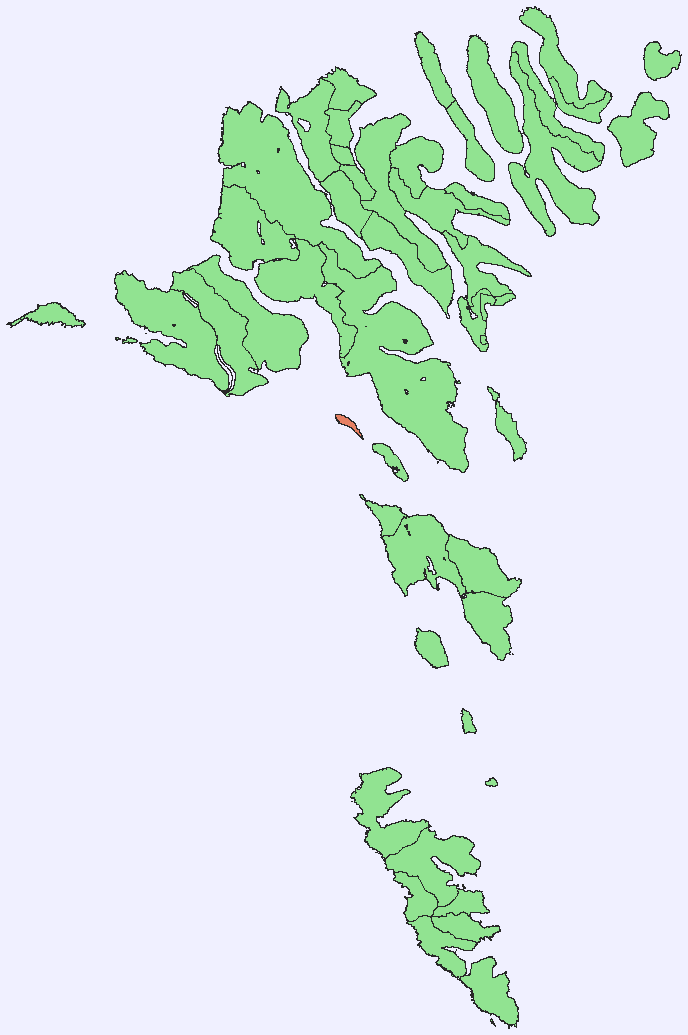 Position of Koltur, Faroe Islands